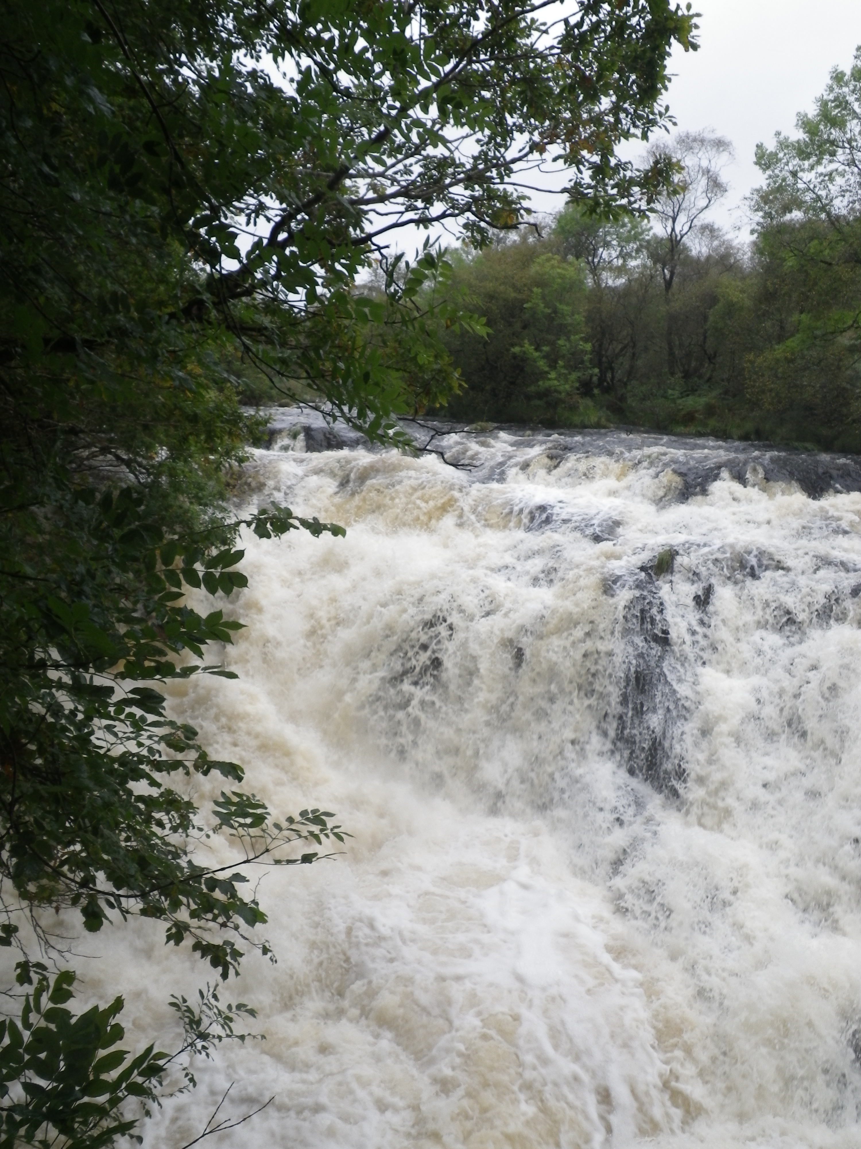 Waukers Linn on Polharrow Burn after several days of rain, 12 Sept 2011. Author confirmed verbally file should be uploaded as CC-BY-SA.